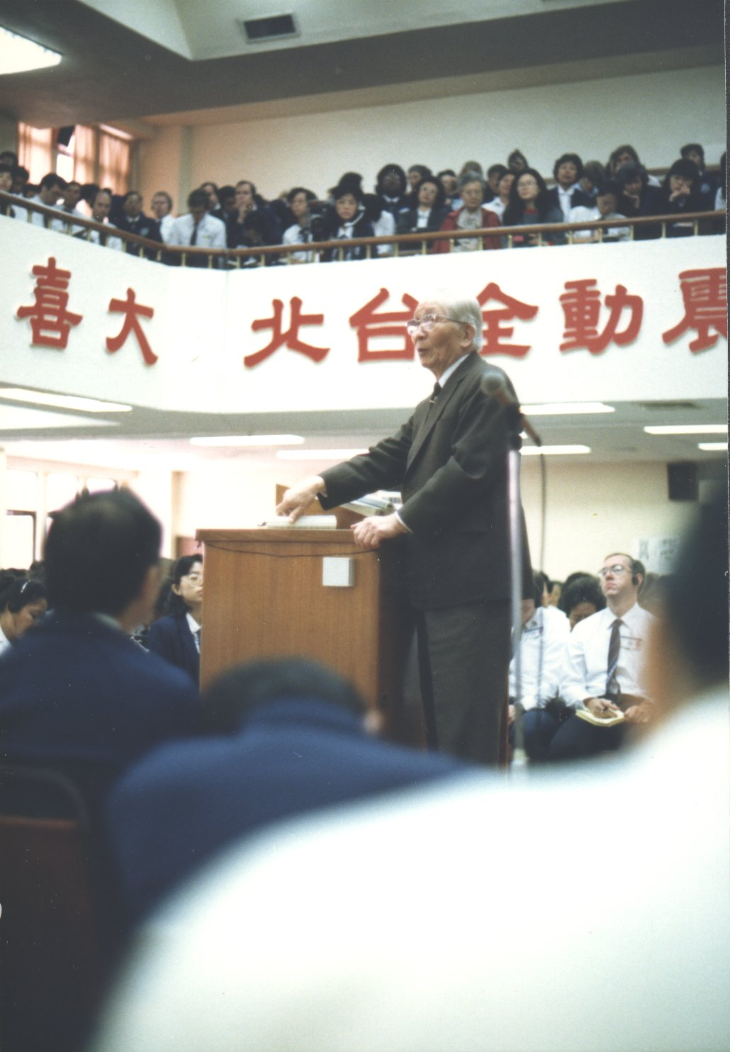 Witness Lee Speaking to the congregation at a gathering of The Church in Taipei - October 1987